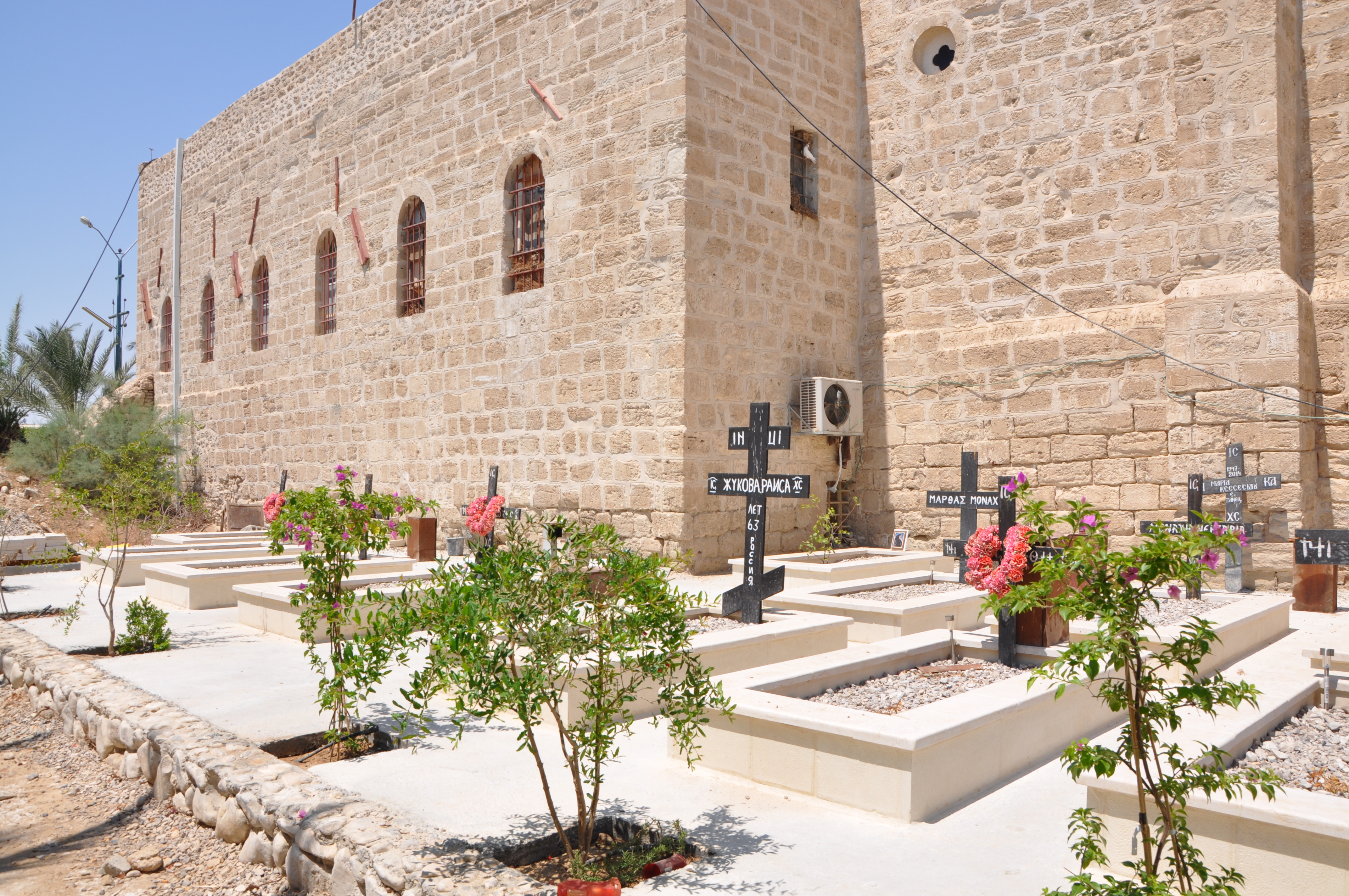 Cemetry Gersim